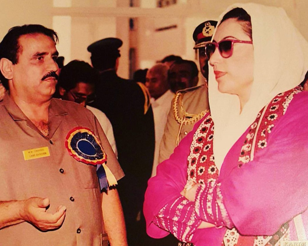 Mr. M.M. Chandio with Prime Minister of Pakistan Mohtarma Benazir Bhutto at the Inauguration of Six Sindh Vocational & Technical Training Institutions.